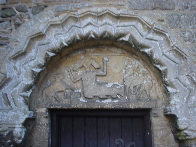 The Mermaid Stone on St Botolph's, Stow Longa, Huntingdonshire (23 December 2007)